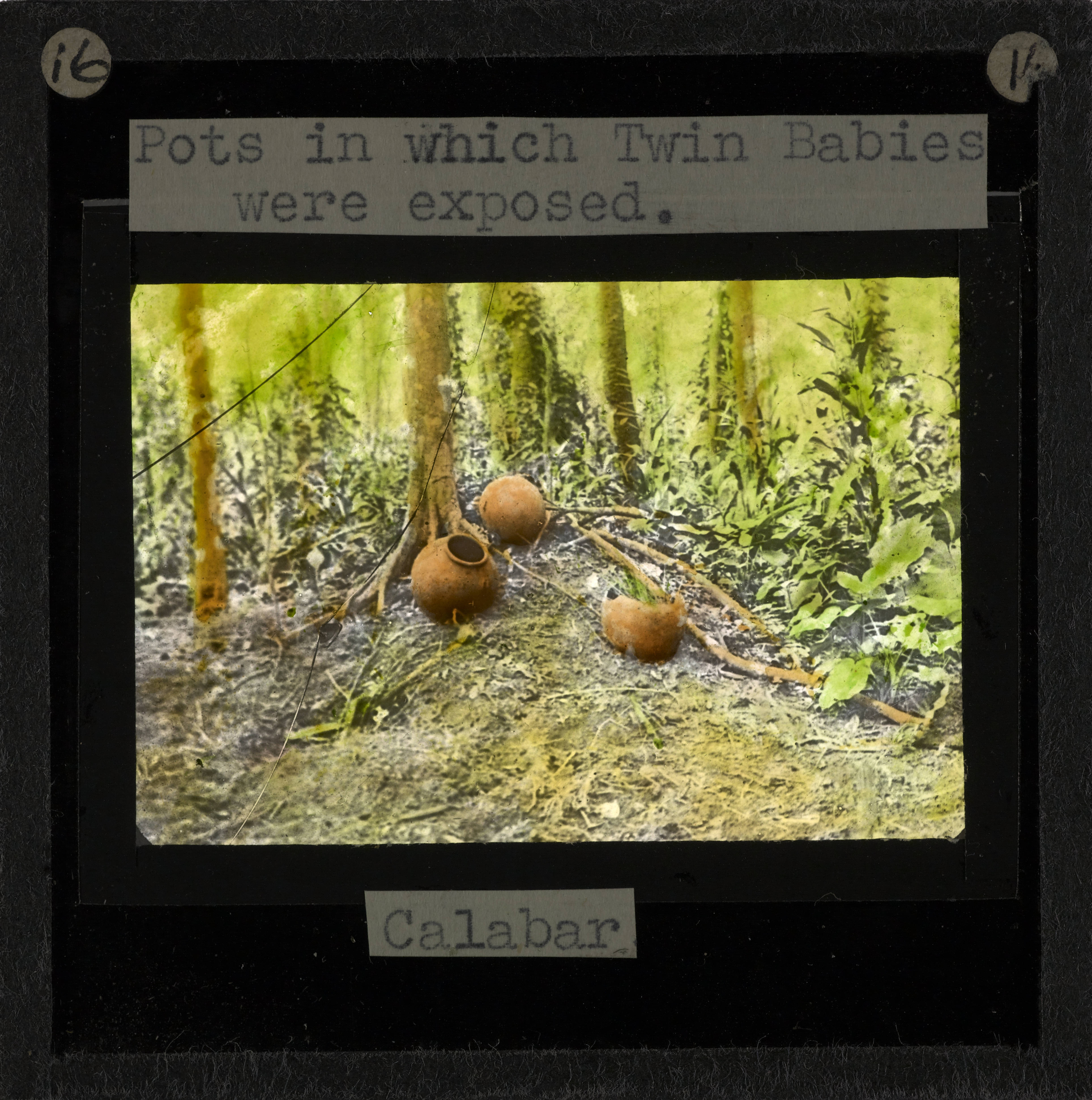 Pots in which Twin Babies were Exposed Image of three clay pots lying on the ground in a clearing. Such pots were used to expose twin babies.; It was the belief in Calabar that if a women had twins one of them had to be a devil so the twins were left in the jungle in such pots to die. Mary Slessor, the Scottish missionary, successfully fought against the practice of killing twins at infancy and herself saved many twins from this fate. Photographer: Unknown Filename: imp-cswc-GB-237-CSWC47-LS2-016.tif Coverage date: circa 1880 Part of collection: International Mission Photography Archive, ca.1860-ca.1960 Type: images Part of subcollection: Photographs from the Centre for the Study of World Christianity, University of Edinburgh, U.K., ca.1900-ca.1940s Repository name: Centre for the Study of World Christianity Archival file: impaunpub_Volume7/1288.url Repository address: The University of Edinburgh School of Divinity, New College, Mound Place, Edinburgh EH1 2LX, United Kingdom Geographic subject (country): Nigeria Format (aacr2): 1 lantern slide : 8 x 8 cm. Geographic subject (continent): Africa Rights: Contact the repository for details. Part of series: Mary Slessor LS2 Repository Subject (lcsh Keyword): Human rights; Twins; Infanticide Date created: circa 1880 Publisher (of the digital version): University of Southern California. Libraries Subject (aat genre): close-up views Format (aat): lantern slides Legacy record ID: impa-m68158 Access conditions: File: GB 237 CSWC47/LS2/16